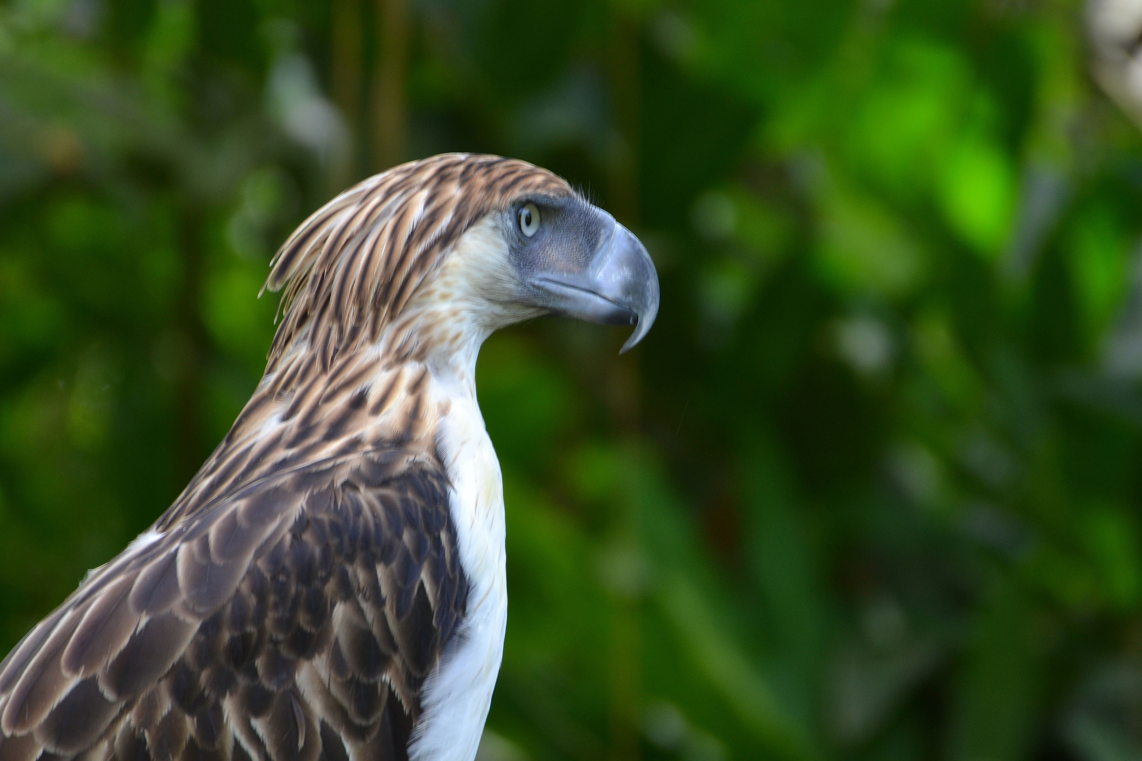 So here it is folks, the elusive and critically endangered Philippine Eagle. We were fascinated by this fellow, sitting on a stump a little distance from the entrance walk way, and mercifully not in a cage (all that was to change very soon, read on). He seemed fairly relaxed, so I had more than enough time to change to my 70-300 big zoom lens and snap several pictures of him. More notes about the Philippine Eagle in subsequent pictures. Read on. (Davao, Philippines, May 2013)